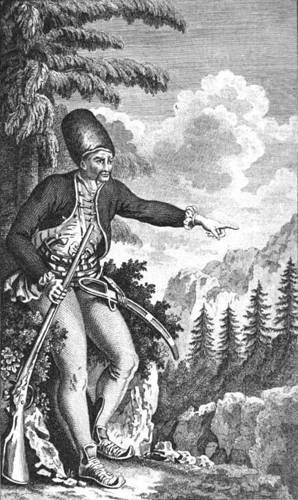 Copy of engraving of Stanislav Sočivica, based on a portrait.